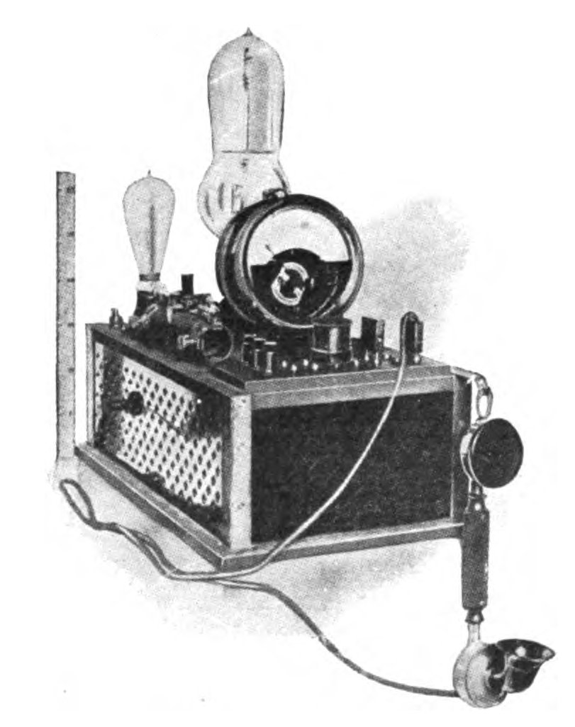 One of the earliest vacuum tube radiotelephone transmitters, built by German scientist Alexander Meissner in 1913. In a historic test in June 1913, Meissner used it to transmit voice 36 km (24 mi) from Berlin to Nauen, Germany. It used a mercury vapor triode vacuum tube (large tube visible) developed beginning in 1906 (approximately at the same time as De Forest's Audion tube) by Austrian engineers Robert von Lieben and Eugen Riesz. The large Lieben-Riesz tube (right) was used in the Meissner oscillator transmitter circuit which he had developed earlier that year, while the receiving circuit used a smaller Fleming valve (left). It transmitted on a wavelength of 600 m (500 kHz) with an output power of 12 W with 440 V on the plate, modulated with a carbon microphone in the antenna lead. H. J. Round noted that when the Leiben tube was used at such power levels, the tube lasted only 10 minutes before the filament burned out due to bombardment by mercury ions.